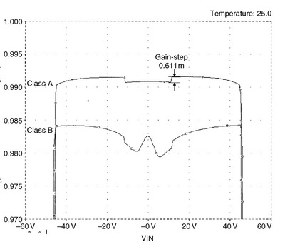 Prikaz_10.9